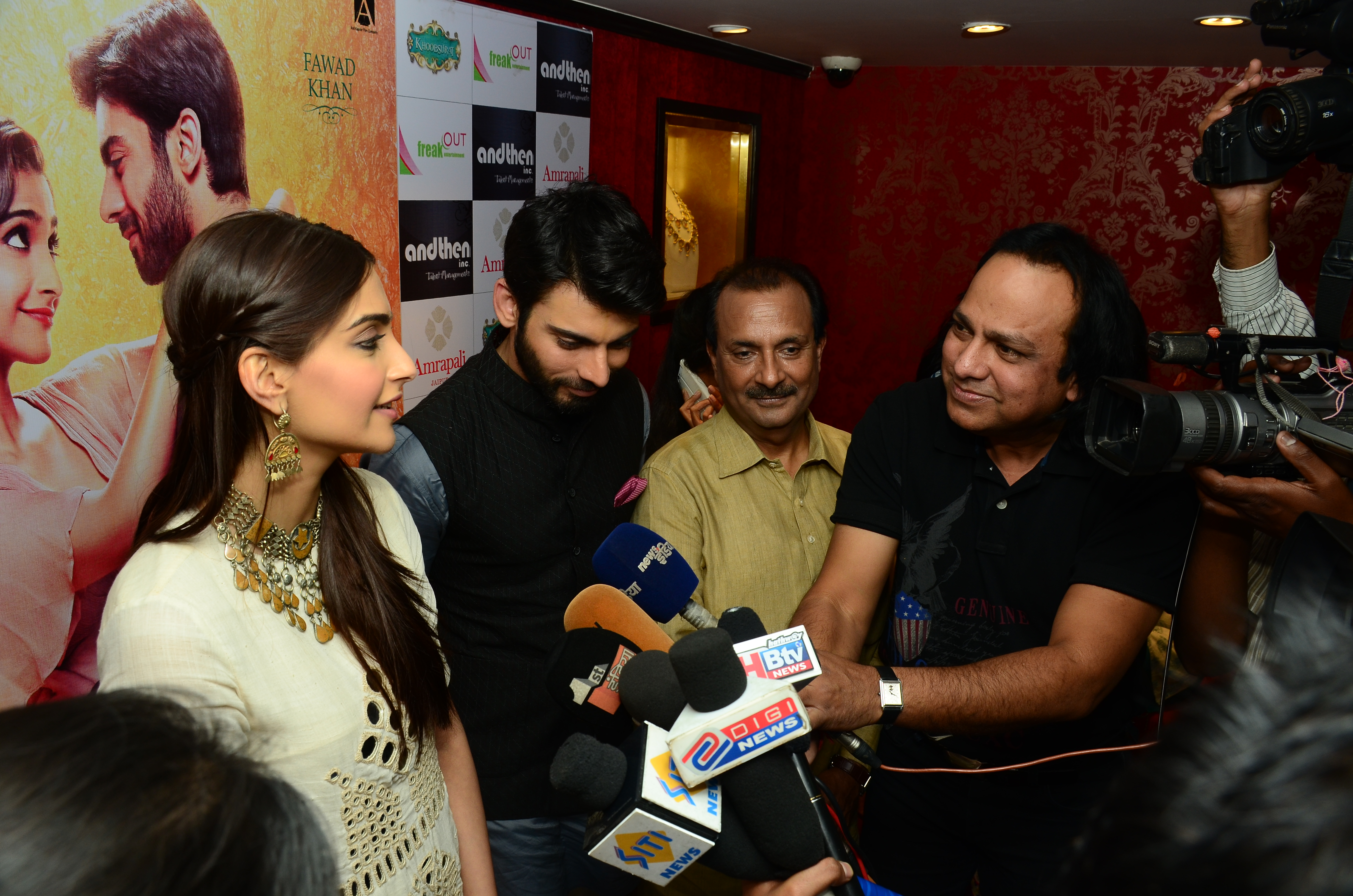 An interview with the star cast of "Khoobsurat"